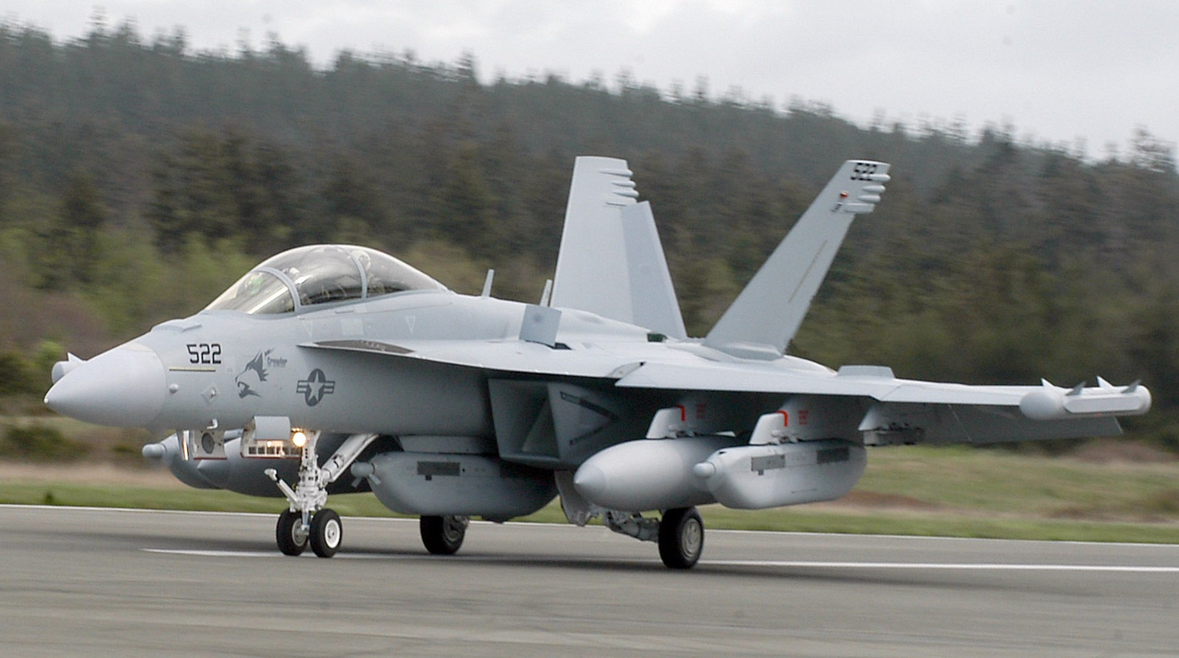 An EA-18G Growler lands at NAS Whidbey Island for the first time. 070409-N-6247M-027 WHIDBEY ISLAND, Wash. (April 9, 2007) - An EA-18G Growler lands at Naval Air Station Whidbey Island for the first time. The Growler is being developed to replace the fleet's current carrier-based EA-6B Prowler. The next-generation electronic attack aircraft for the U.S. Navy, combines the combat-proven F/A-18 Super Hornet with state-of-the-art electronic warfare avionics. The EA-18G is expected to enter initial operational capability in 2009. Note: Image is cropped from original version linked in source line above.